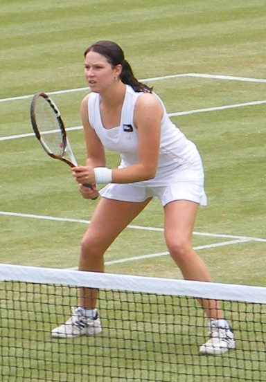 British tennis player Melanie South, playing doubles with Alex Bogdanovic at Wimbledon, on Centre Court